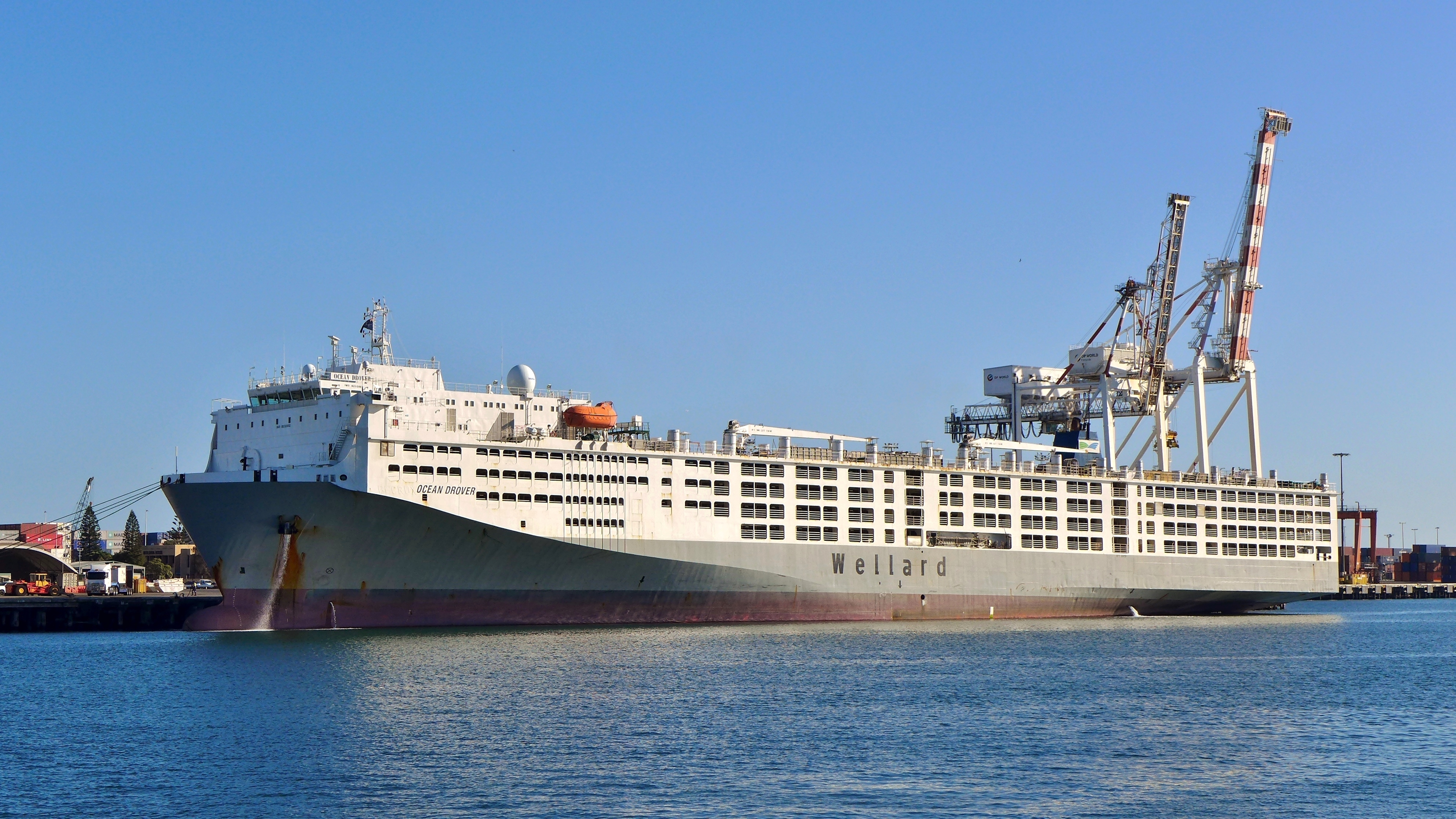 Livestock carrier Ocean Drover berthed at North Quay, in the inner harbour of Fremantle Harbour, Western Australia.